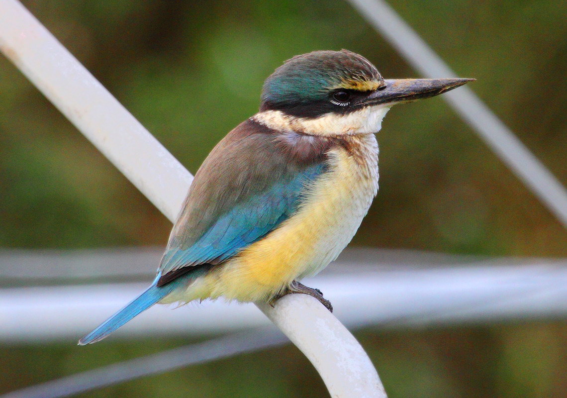 Sacred Kingfisher (also known as the Kotare) in a garden in New Zealand.